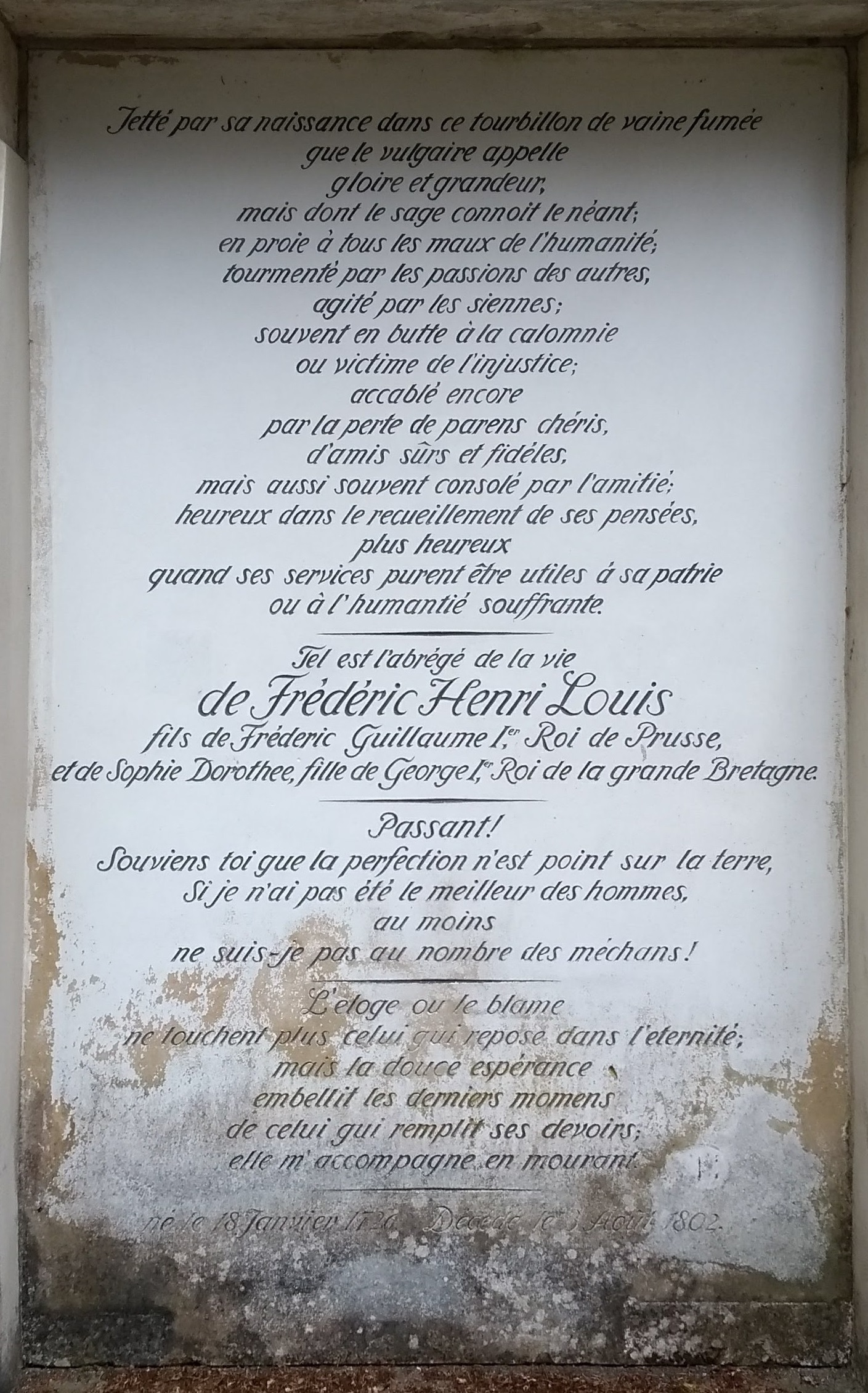 Plate on entry to the tomb of Prince Henry of Prussia